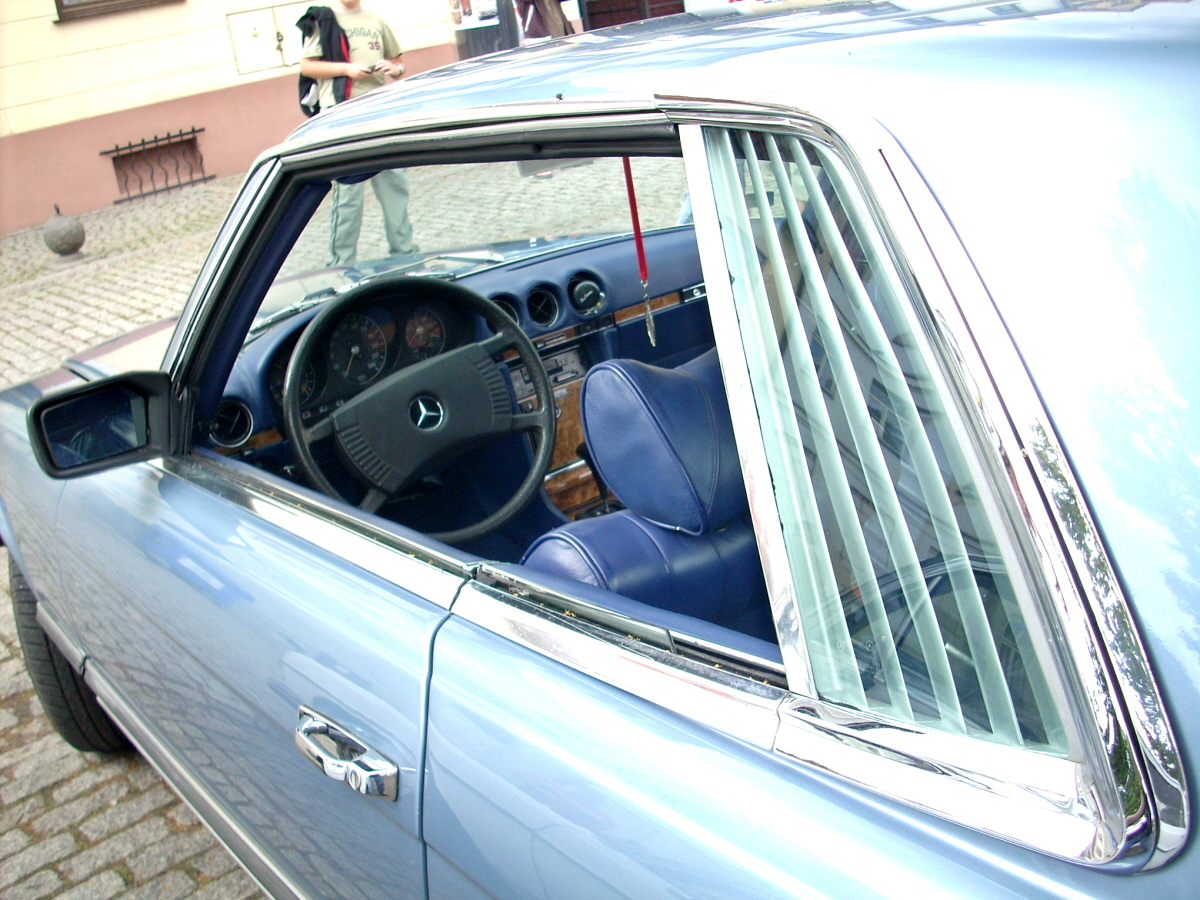 photo taken with Nikon L10 camera